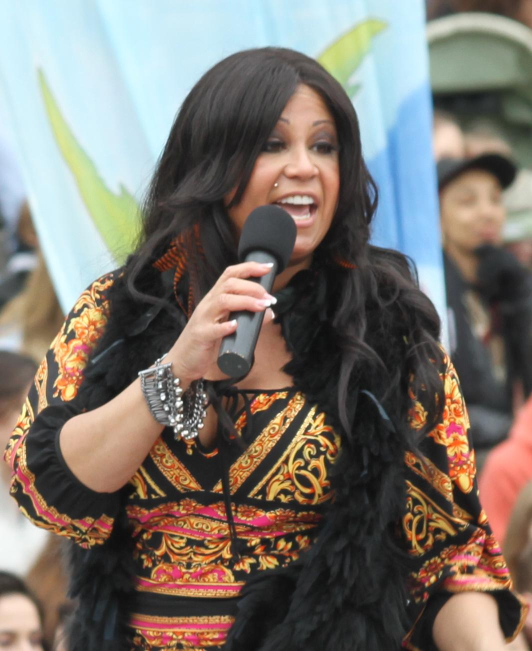 Peniston performing live at the National Cherry Blossom Festival in Washington, D.C., on April 9, 2011